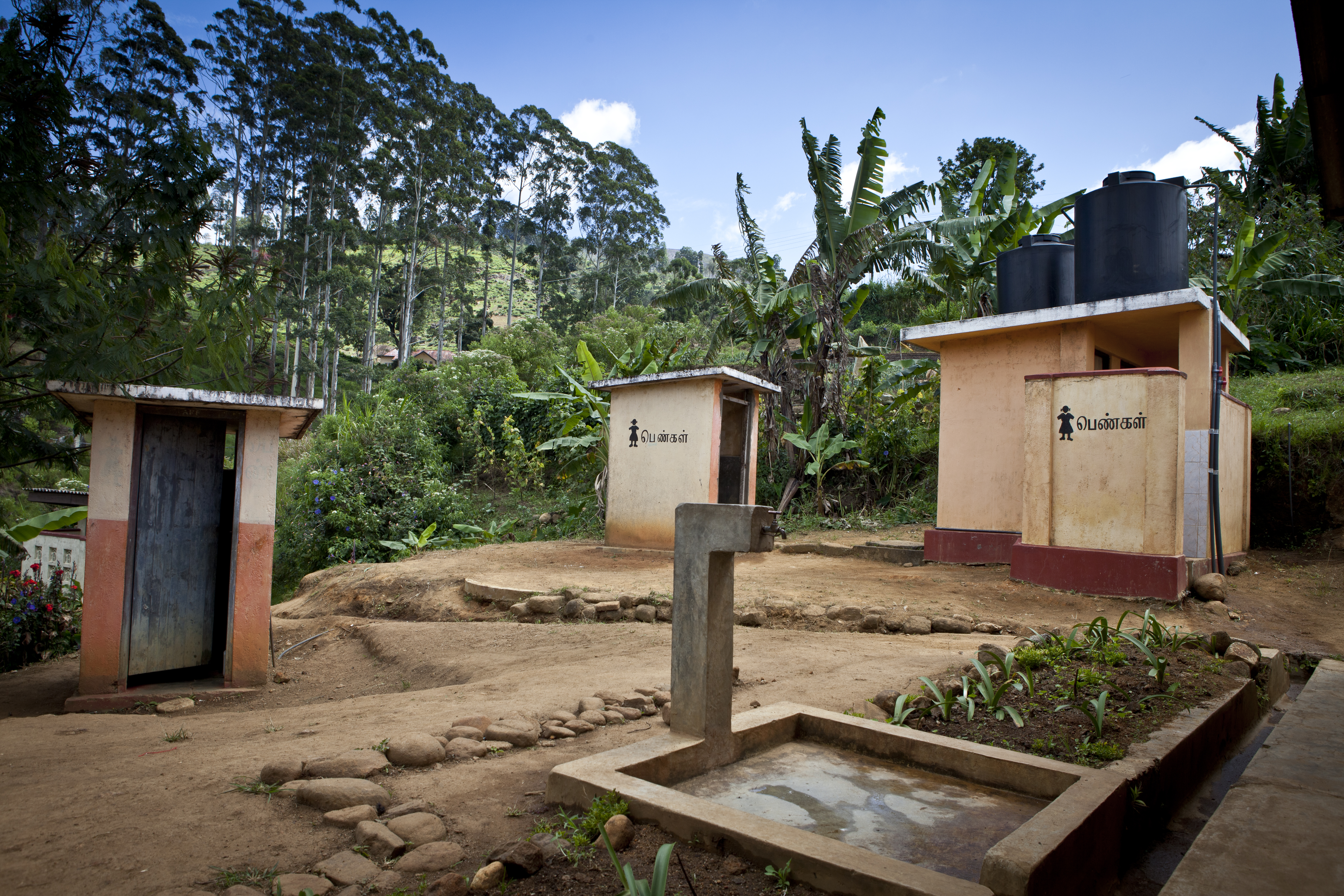 The toilets at Bogawana Estate School were funded by AusAID.